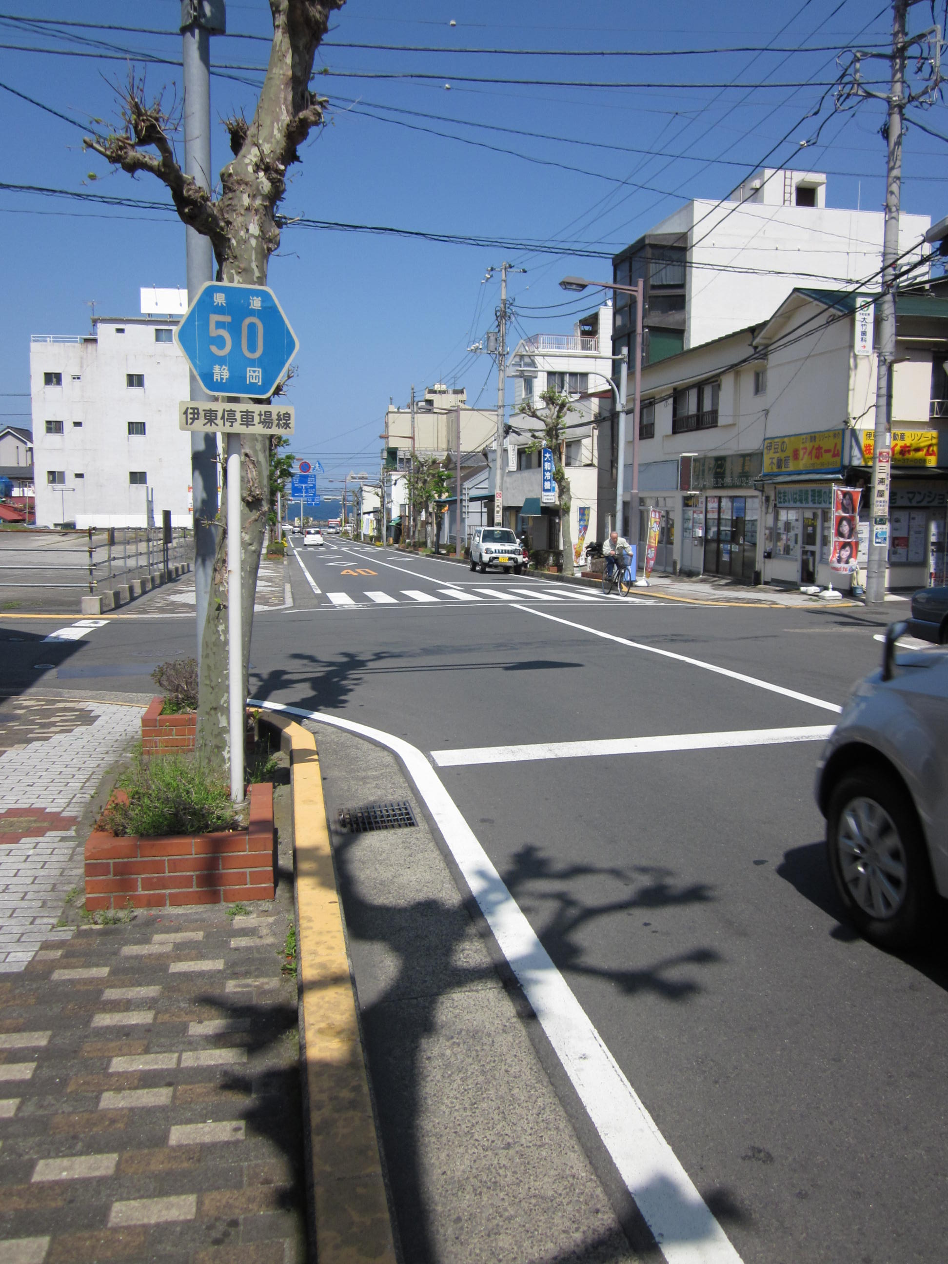 Shizuoka prefectural road route 50, Ito city, Shizuoka pref., Japan